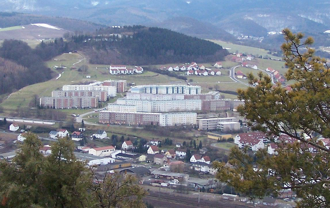 The Mölmen settlement in Wutha-Farnroda at the beginning of the reconstruction.